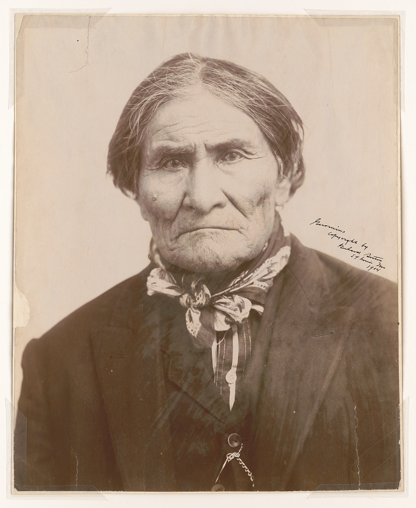 Geronimo Digital ID: (digital file from original) ppmsca 53158 Reproduction Number: LC-DIG-ppmsca-53158 (digital file from original) LC-USZ62-17723 (b&w film copy neg.) LC-DIG-ppmsca-31491 (detail of eye, digital file from original) Repository: Library of Congress Prints and Photographs Division Washington, D.C. 20540 USA